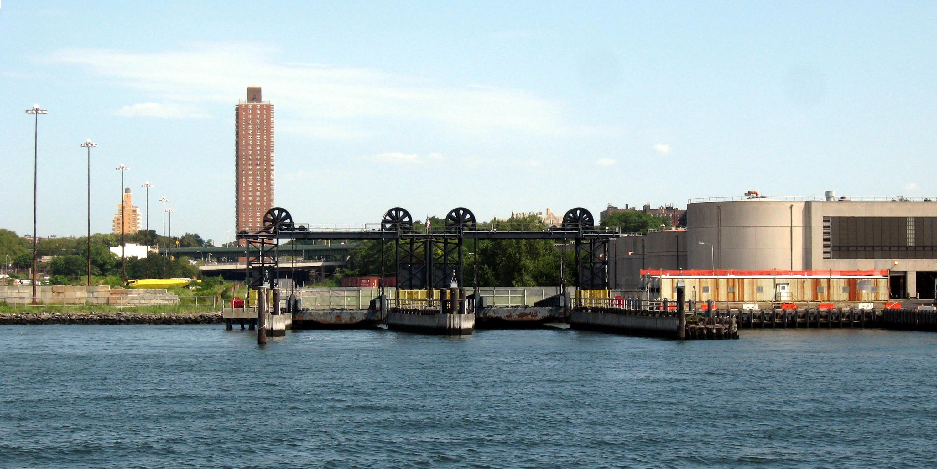 Looking southeast at New York New Jersey Rail car float dock from ferry rounding Owls Head on a sunny afternoon